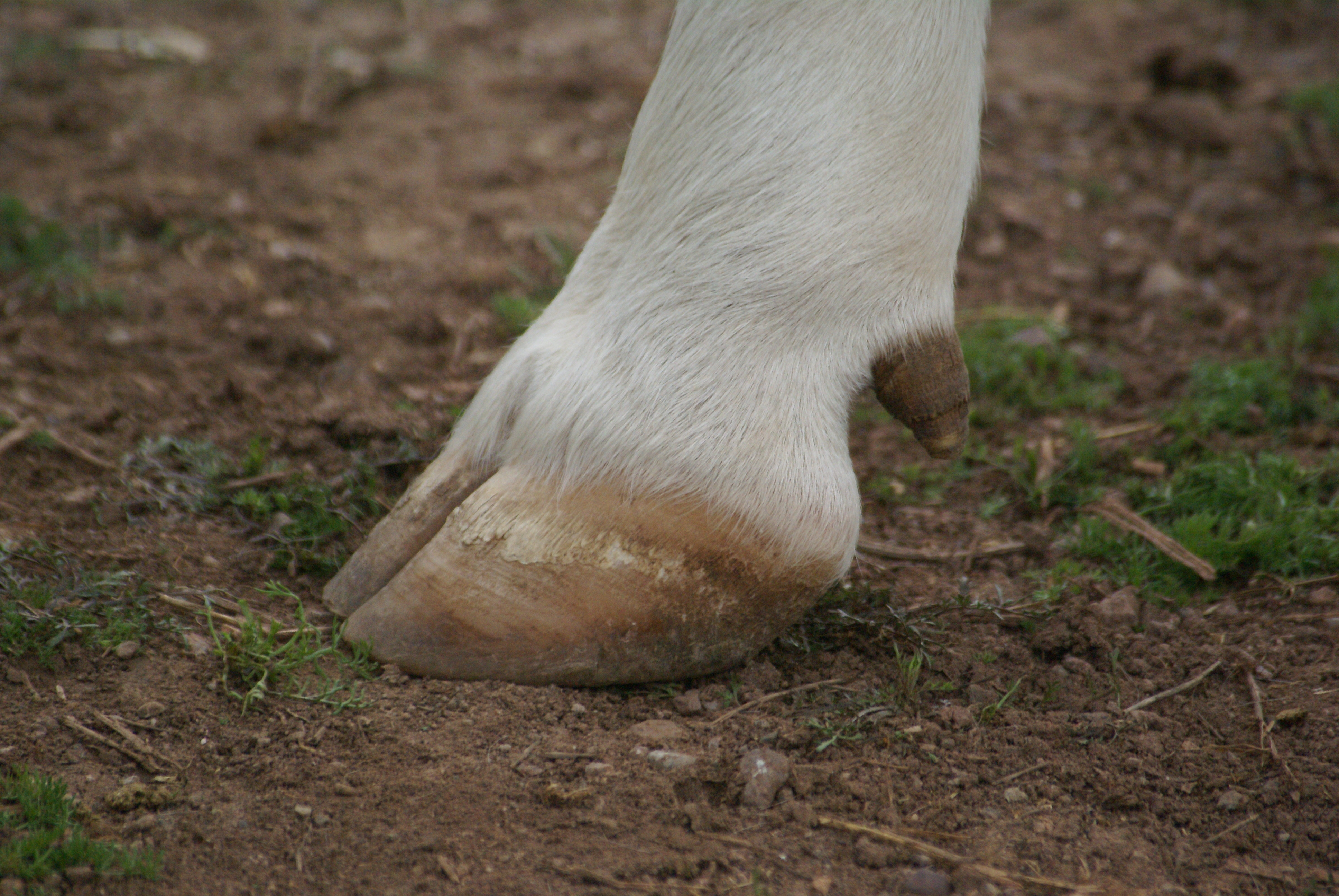 Ox hooves - Erfurt Zoo